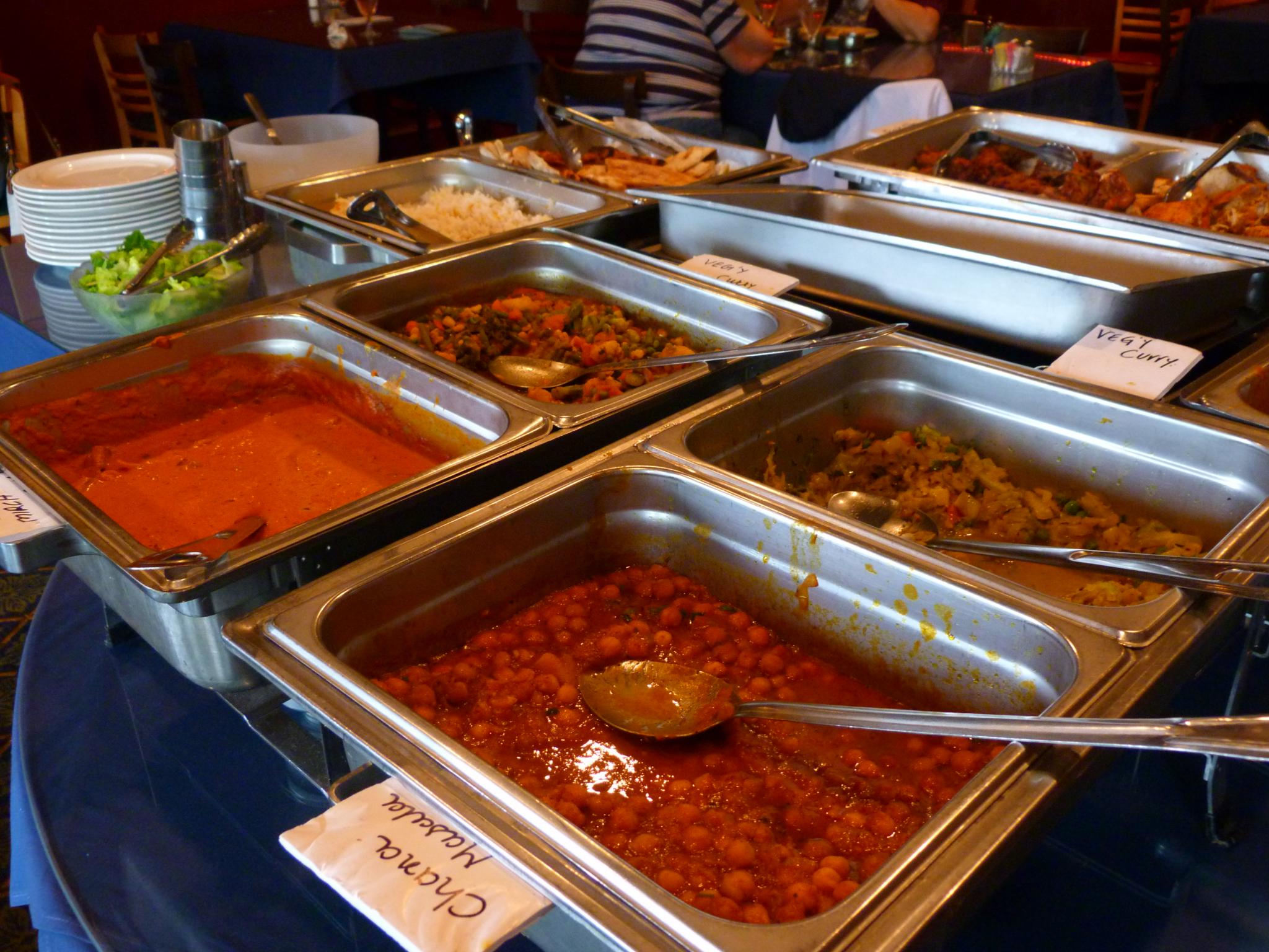 Pintu's Indian Palace, an Indian-style all-you-can-eat buffet in West Springfield, Massachusetts, United States.